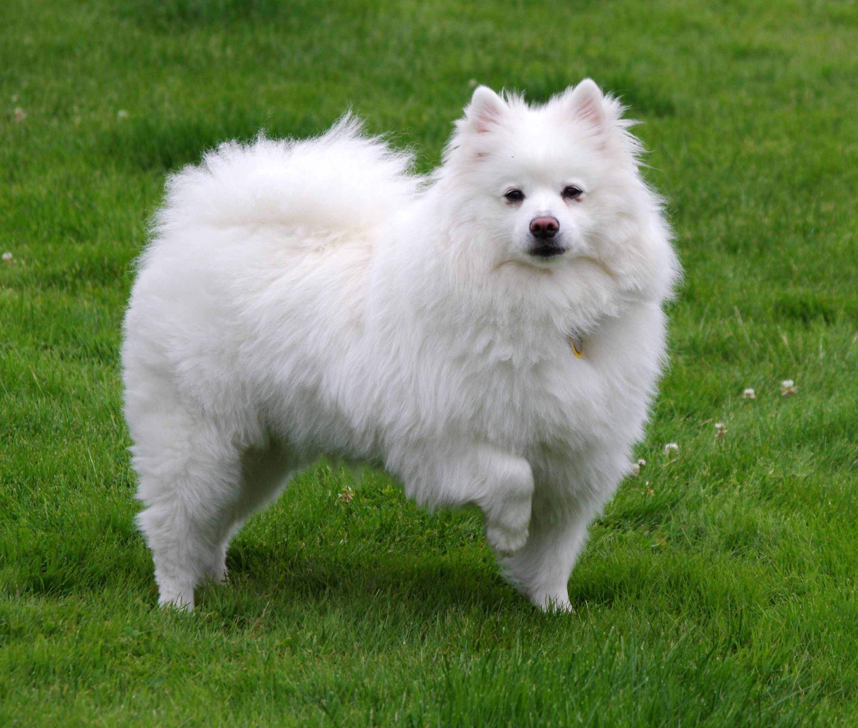 Cute pose, but she was actually a little freaked about the camera. (American Eskimo)